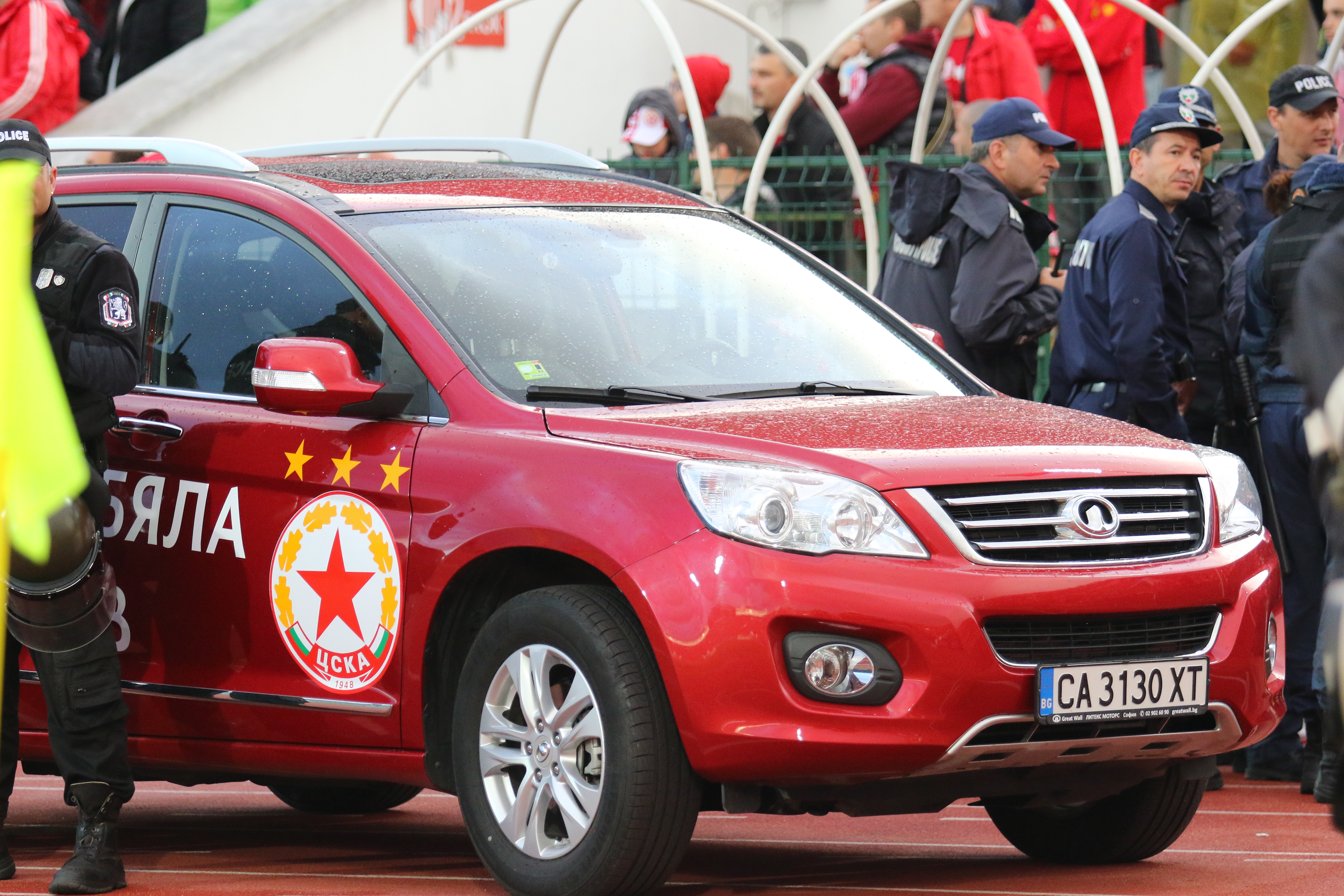 Great Wall Hover H6 from Litex Motors Bulgaria